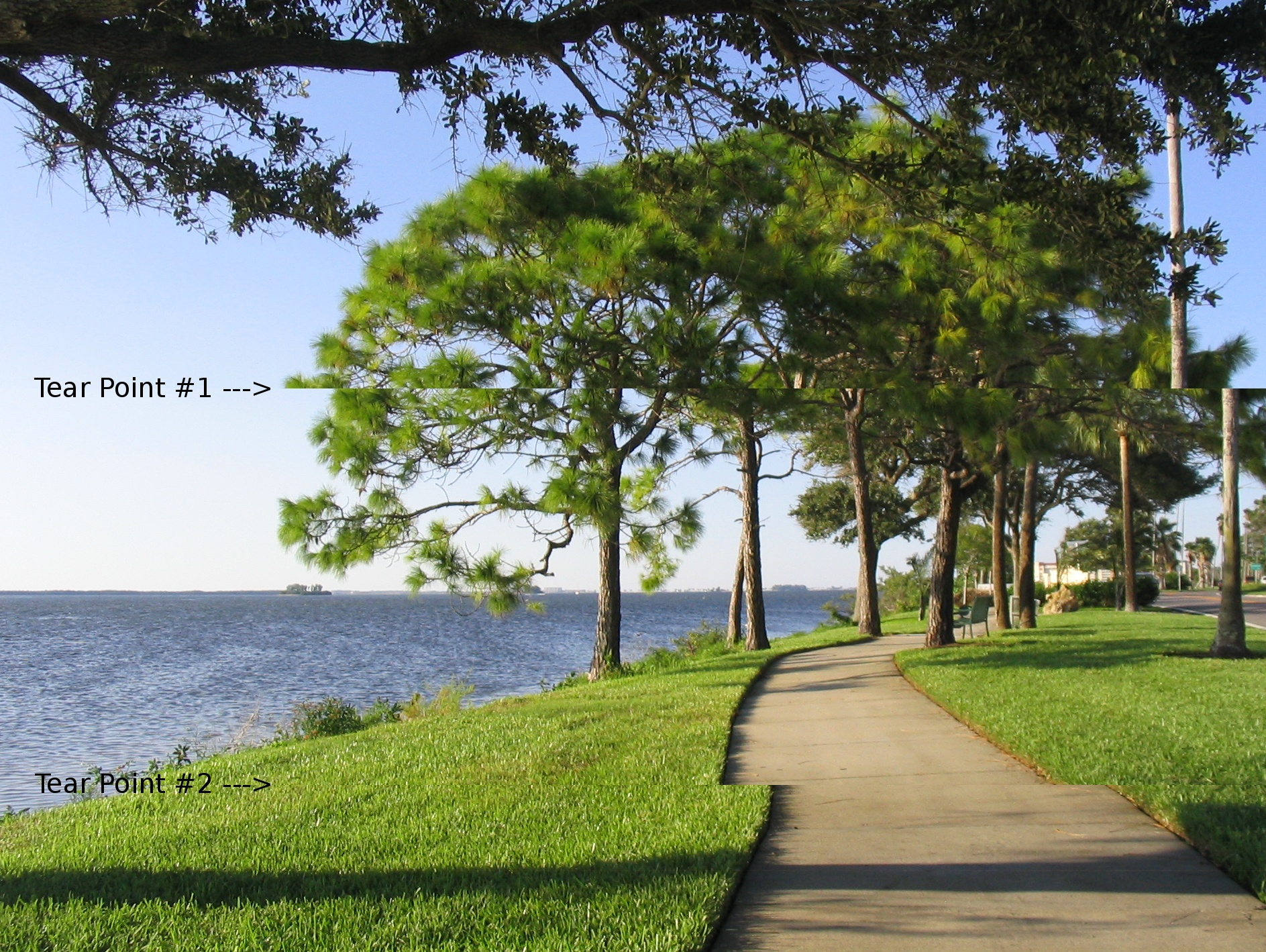 A simulated image of what a typical video tearing artifact looks like. In this image, the video device's output buffer has been re-written twice in the amount of time normally allotted for just one monitor refresh cycle, while the virtual camera pans left toward the water.